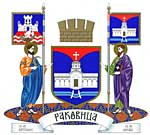 Rakovica coat of arms.